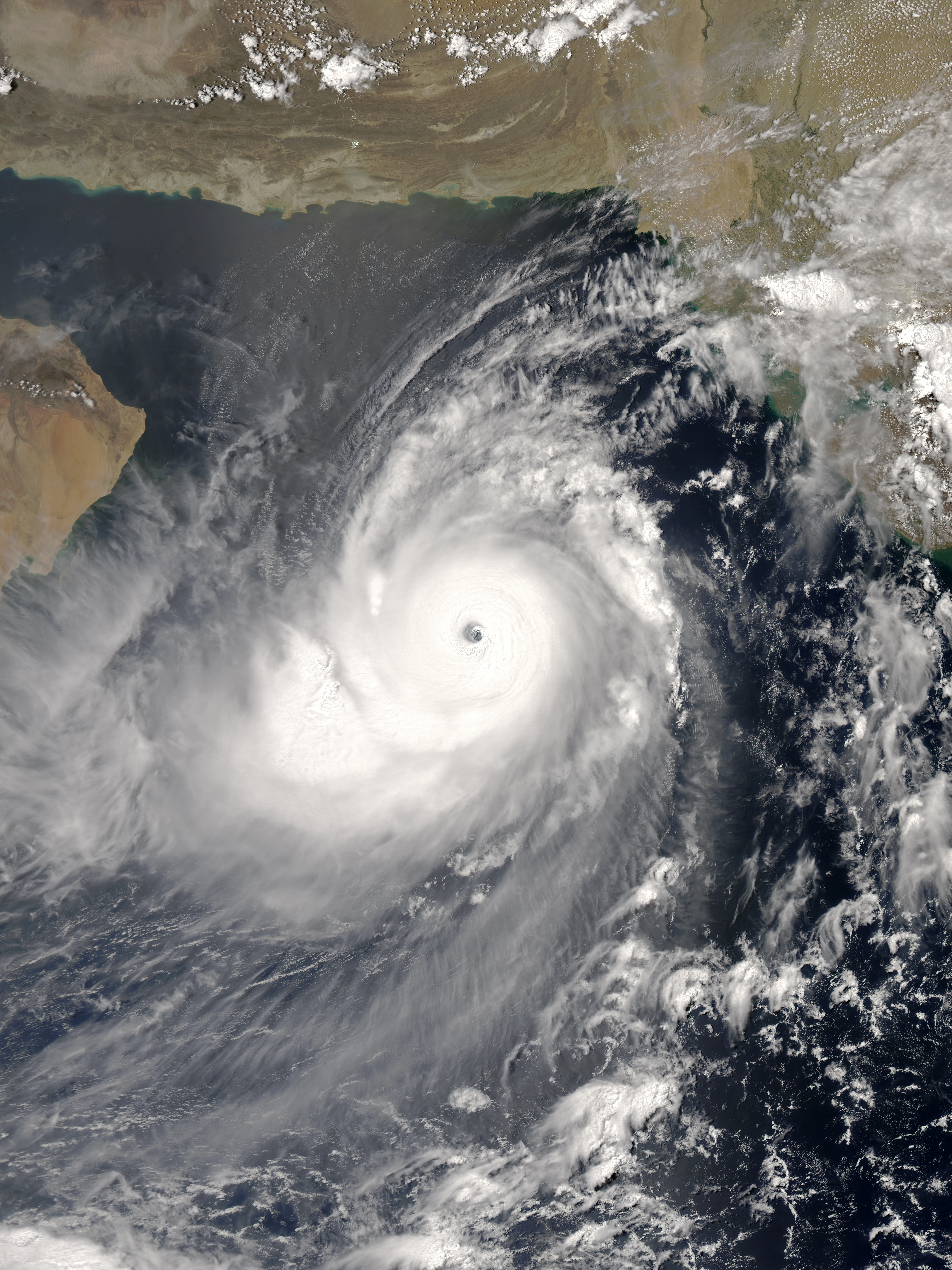 The Aqua satellite acquired the picture of Gonu, the most intense tropical cyclone of the Arabian Sea on record, at 12:00 Arabia Standard Time (09:00 UTC) on 4 June 2007. Although the India Meteorological Department claimed that Gonu intensified into a super cyclonic storm at 15:00 UTC, the Joint Typhoon Warning Center indicated that Gonu had started to weaken since 12:00 UTC. Based on the appearance, the picture should be at peak intensity in reality.